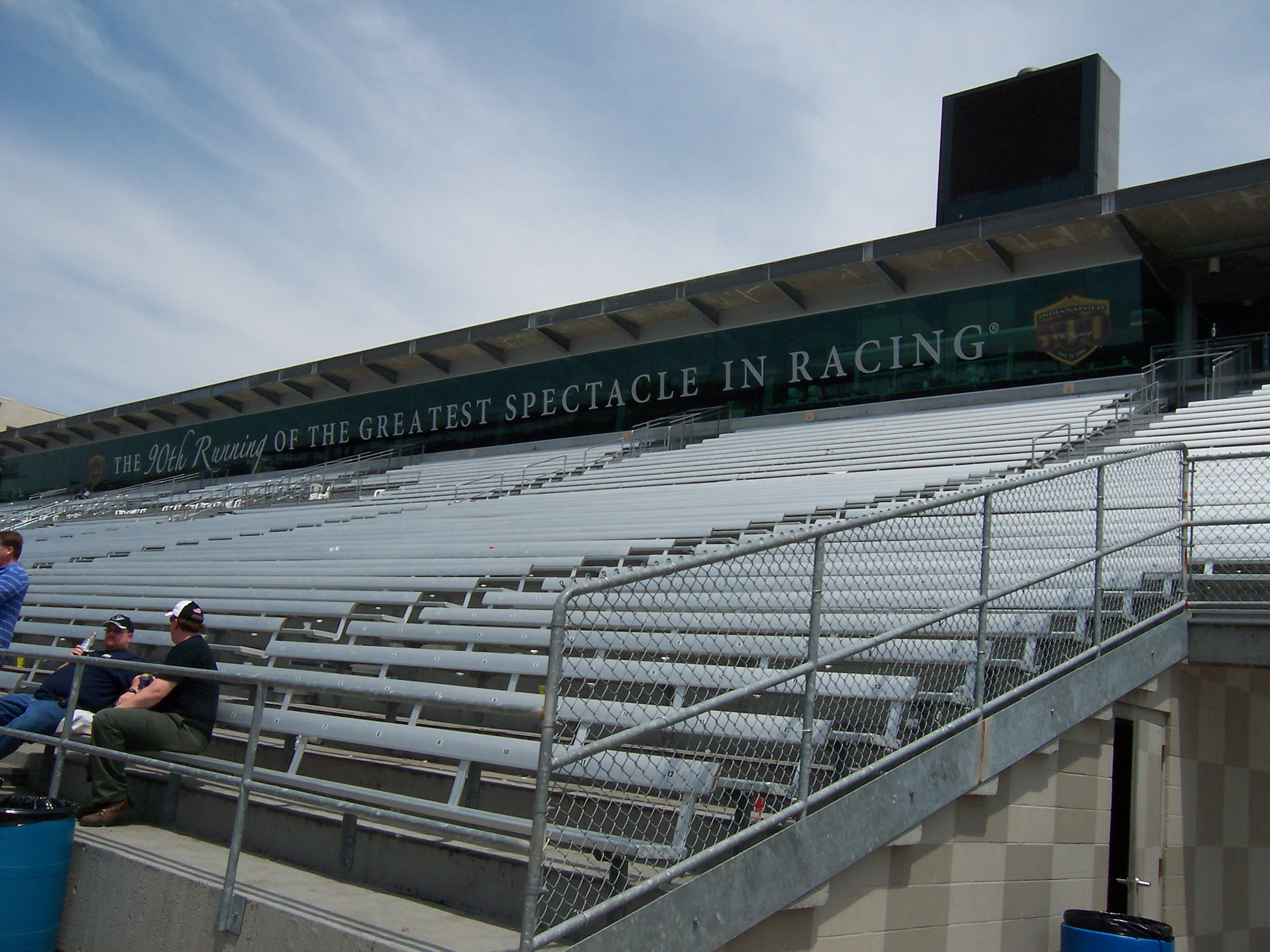 Economacki Press Center at the Indianapolis Motor Speedway, in 2006